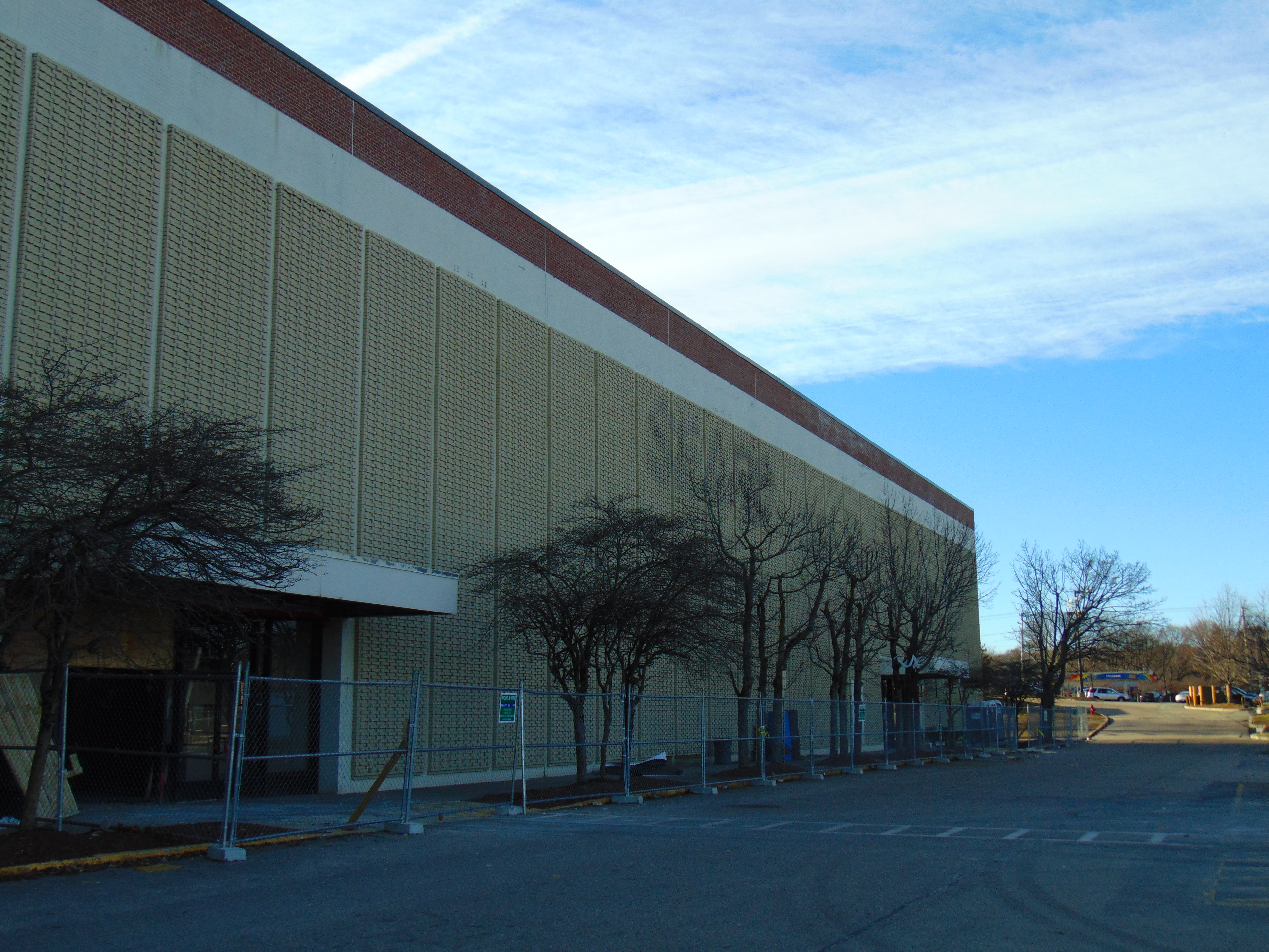 The former Sears located in the Rhode Island Mall, in Warwick, Rhode Island. This location closed in September 2017. (Will be uploaded to flickr tomorrow...)